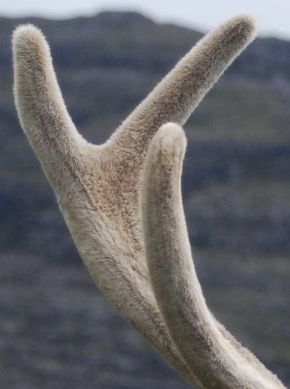 Red deer stag (Cervus elaphus) with velvet antlers in Glen Torridon, Scotland